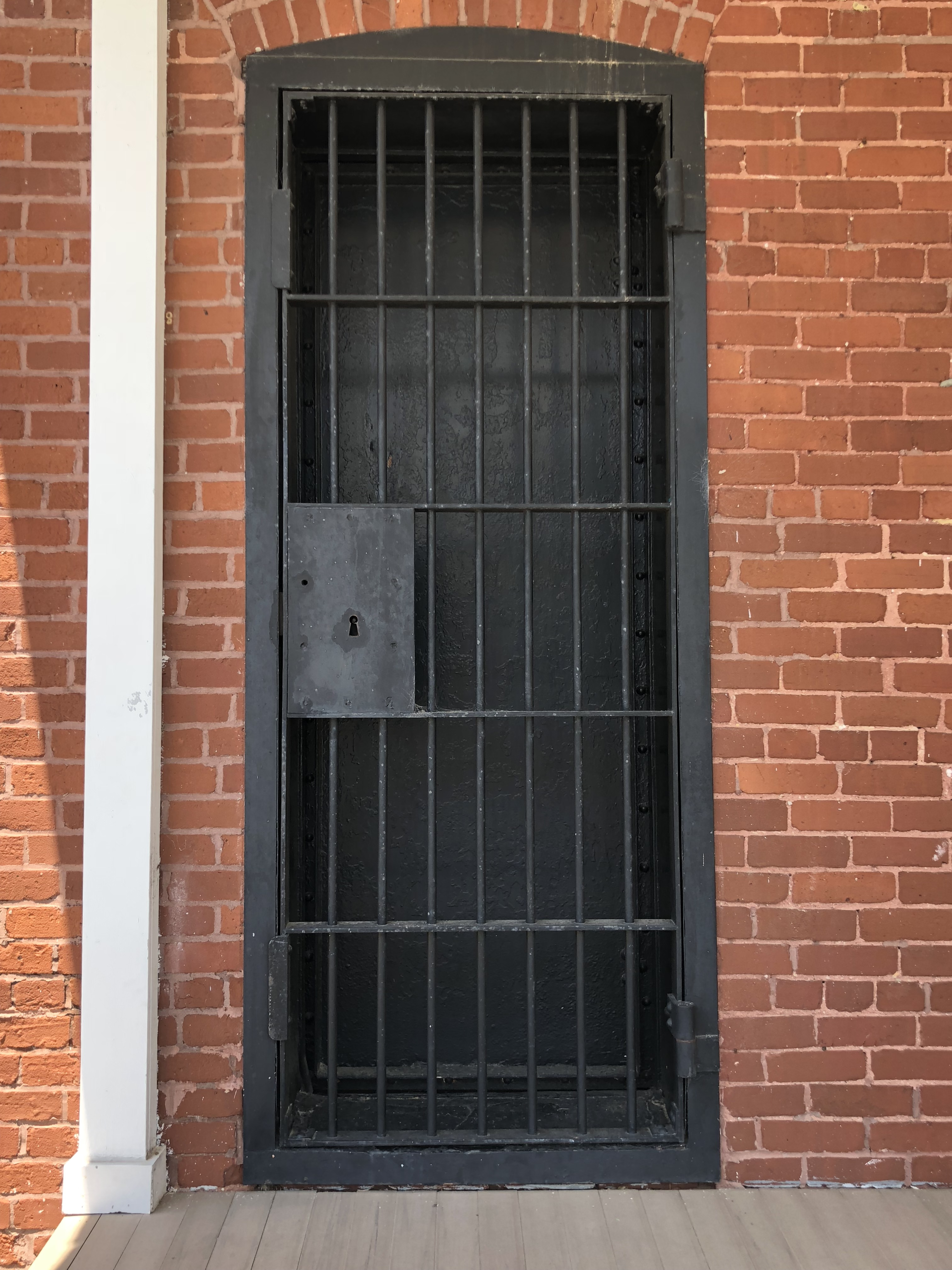 The jail entrance at the SE corner of the Rockdale County Jail, an NRHP-listed building in Conyers, Georgia